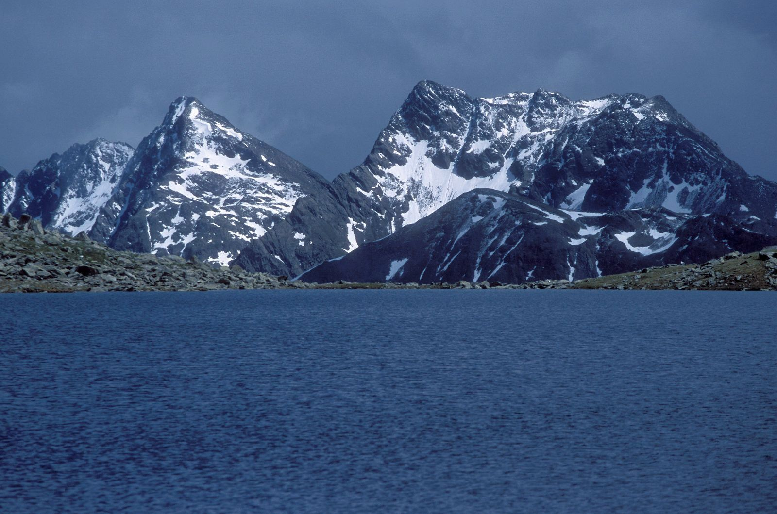 The two highest mountains of Villgraten Group, Weiße Spitze (2962m, left) and Rote Spitze (2956m, right) as seen from northwest from Oberseitsee lake (2576m)